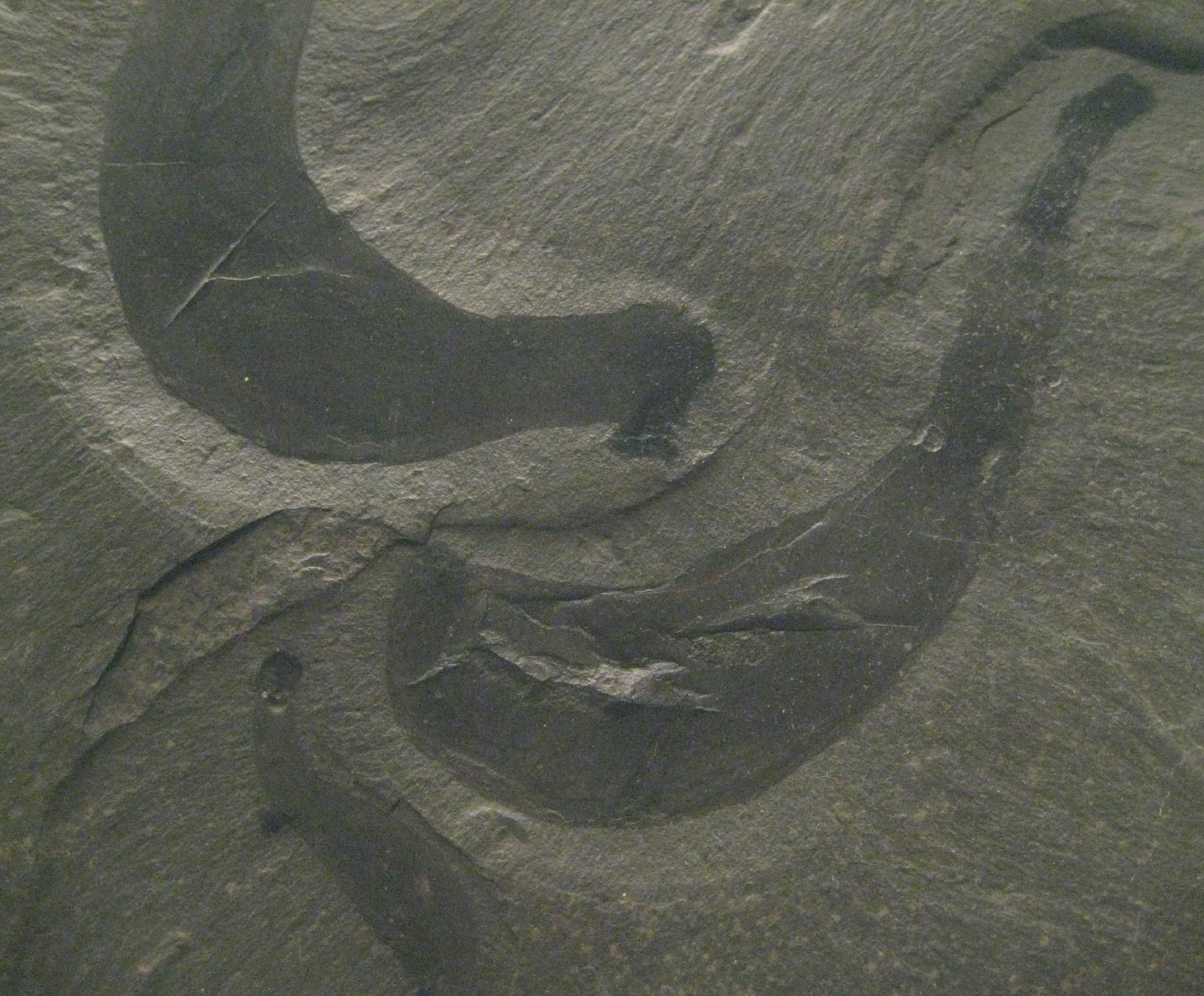 Priapulid worm From the Burgess Shale.